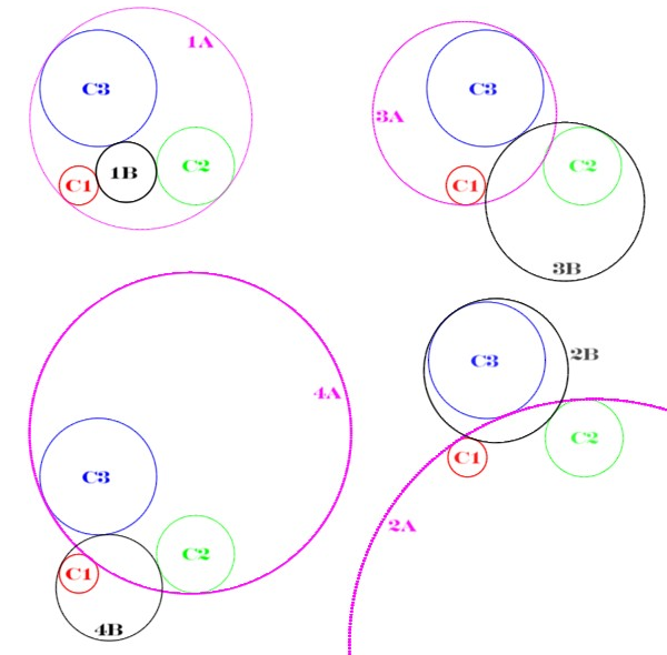 Illustration of all eight solutions to Apollonius' problem. The three given circles are labeled C1, C2 and C3 and are colored red, green and blue, respectively. The solutions are grouped into four pairs, one pink and one black solution circle, and labeled as 1A/1B, 2A/2B, 3A/3B, and 4A/4B.